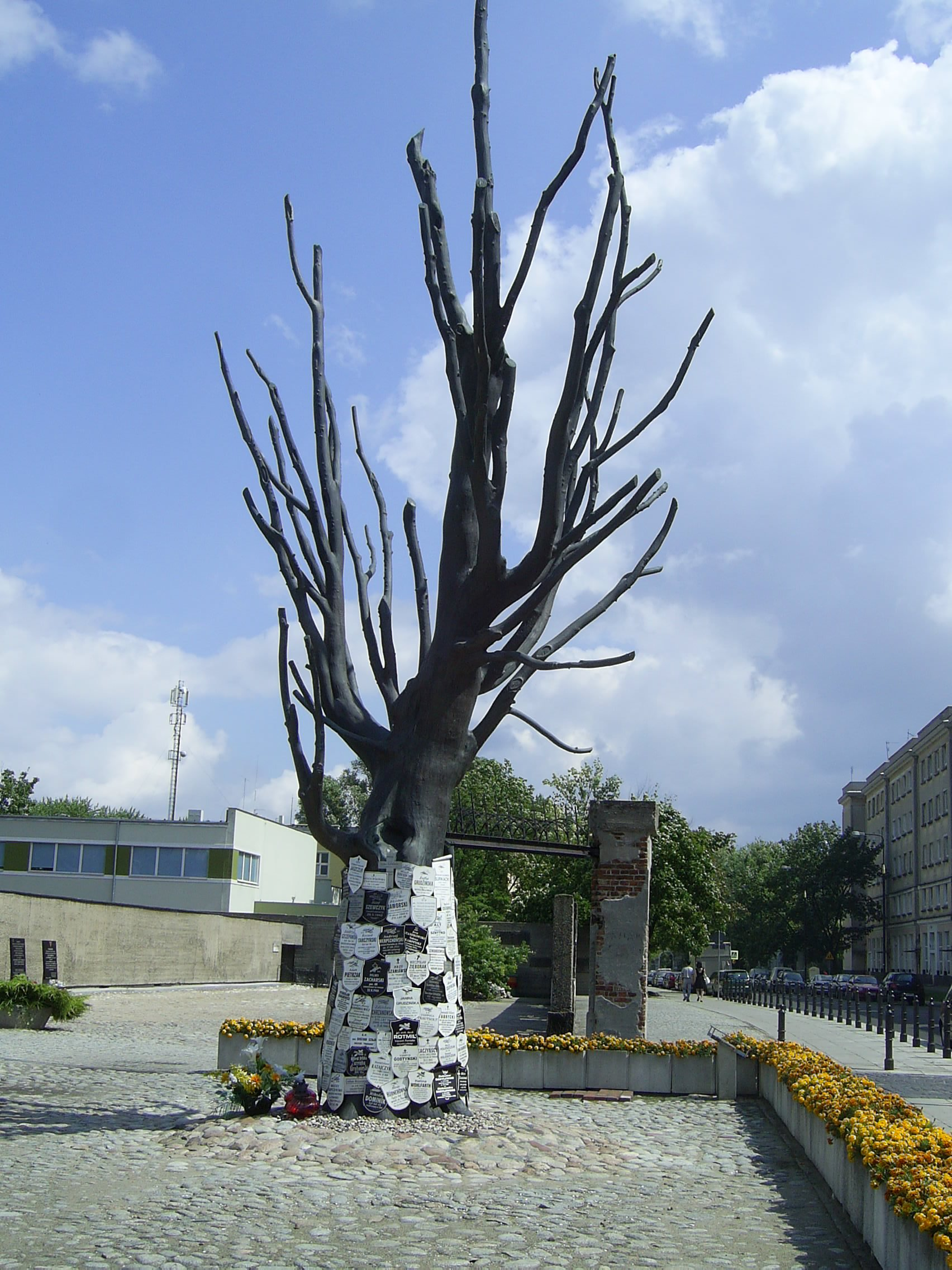 Pawiak